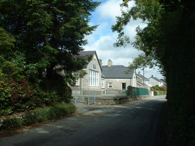 Llangybi school.